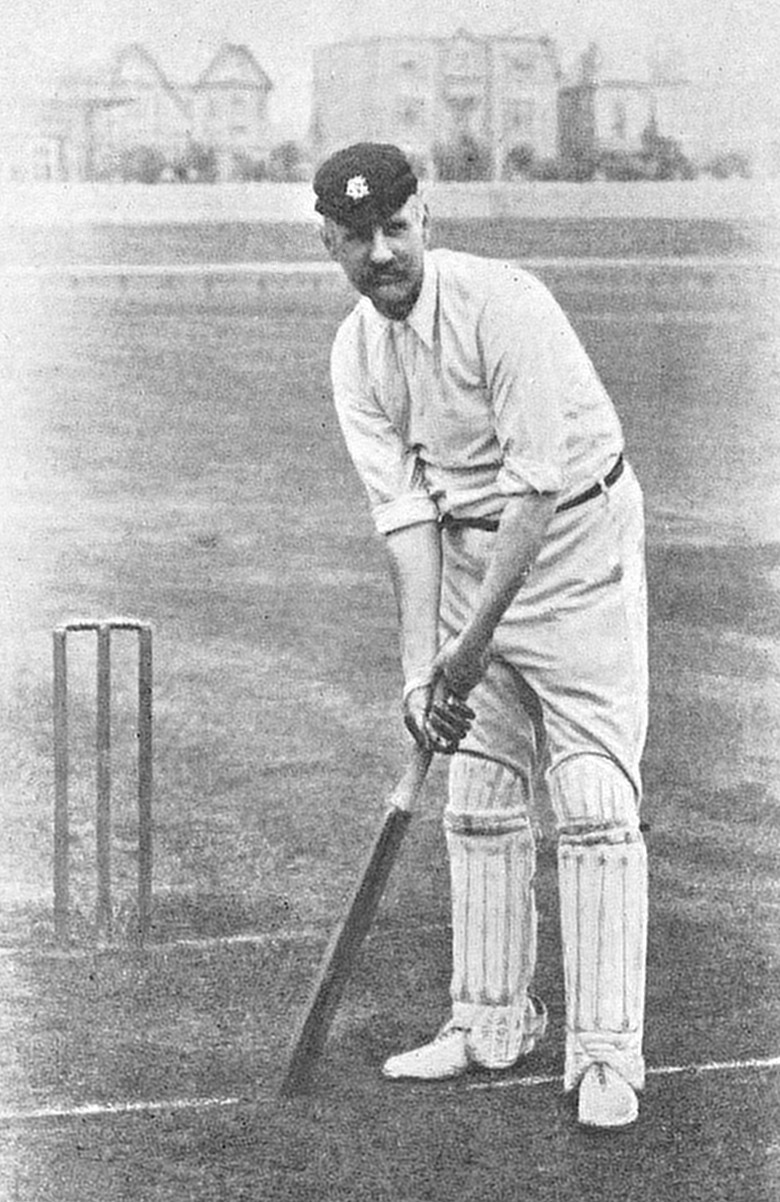 Scan of cricketer Billy Barnes